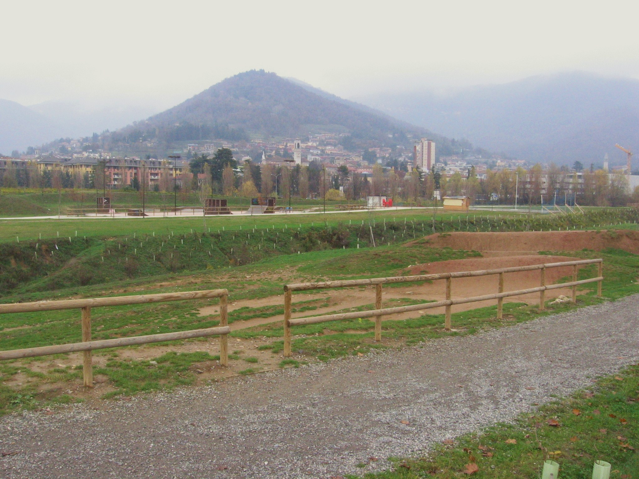 Park in Villa di Serio, Bergamo, Italy